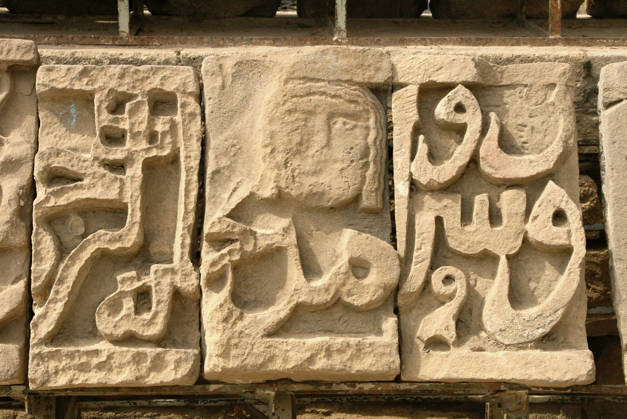 The Shirvanshahs ruled the state of Shirvan in northern Azerbaijan from the 6th to the 16th centuries. Their attention first shifted to Baku in the 12th century, when Shirvanshah Manuchehr III ordered that the city be surrounded with walls. In 1191, after a devastating earthquake destroyed the capital city of Shamakhi, the residence of the Shirvanshahs was moved to Baku, and the foundation of the Shirvanshah complex was laid. This complex, built on the highest point of Ichari Shahar, remains as one of the most striking monuments of medieval Azerbaijani architecture.